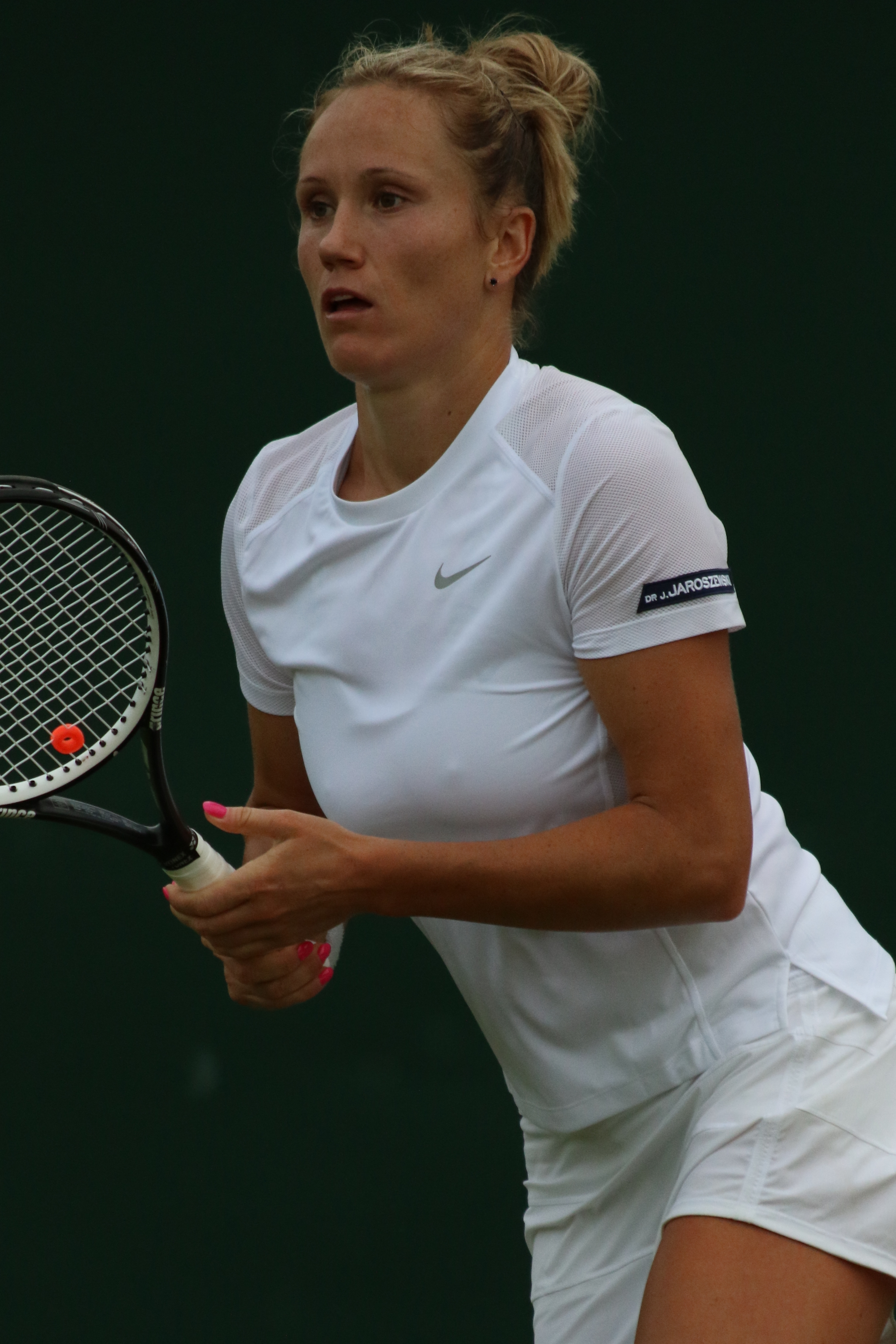 2019 Wimbledon Qualifying Tournament.